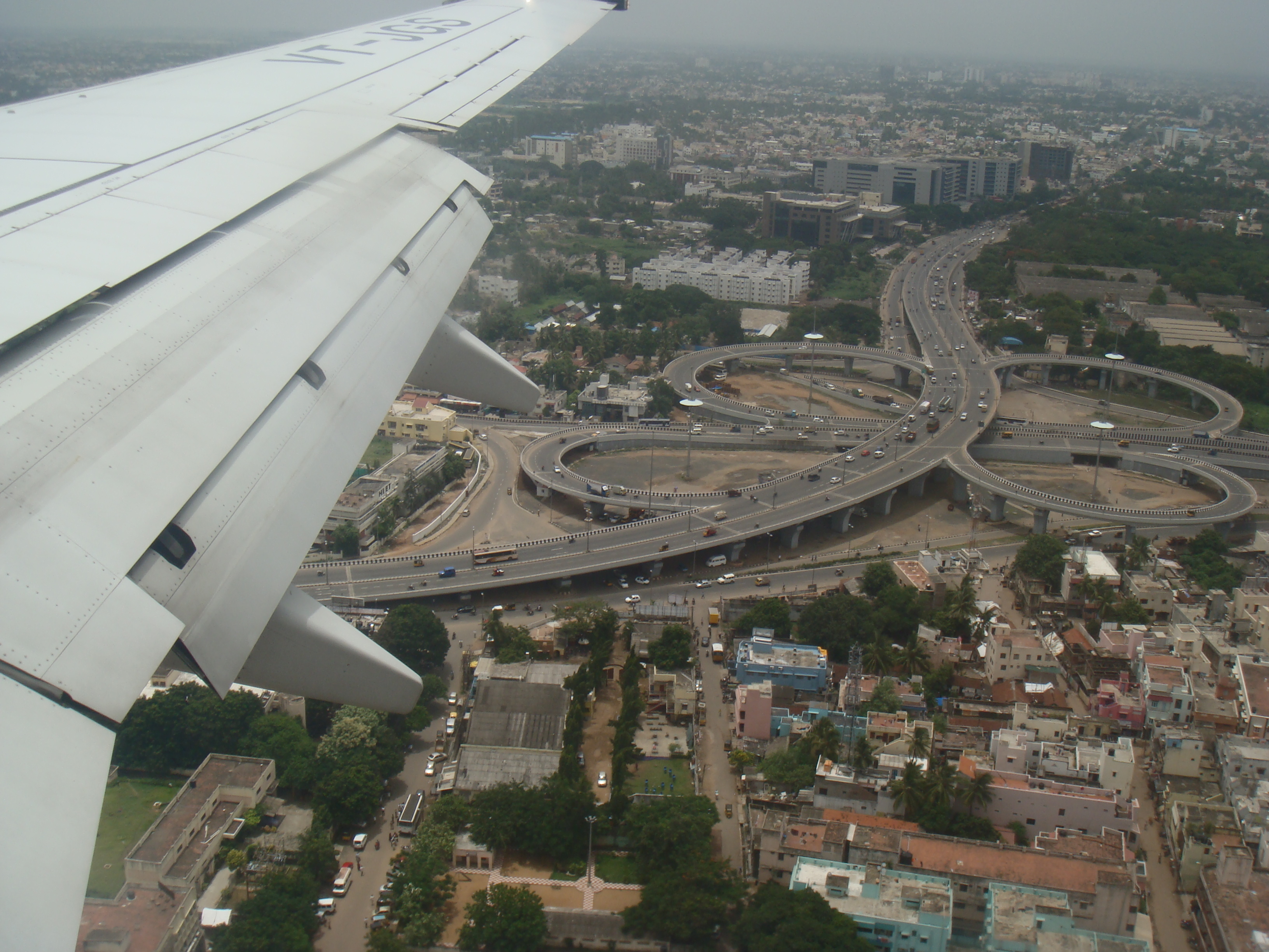 Kathipara Junction, Guindy, Chennai, TamilNadu, India - Bird Eye View